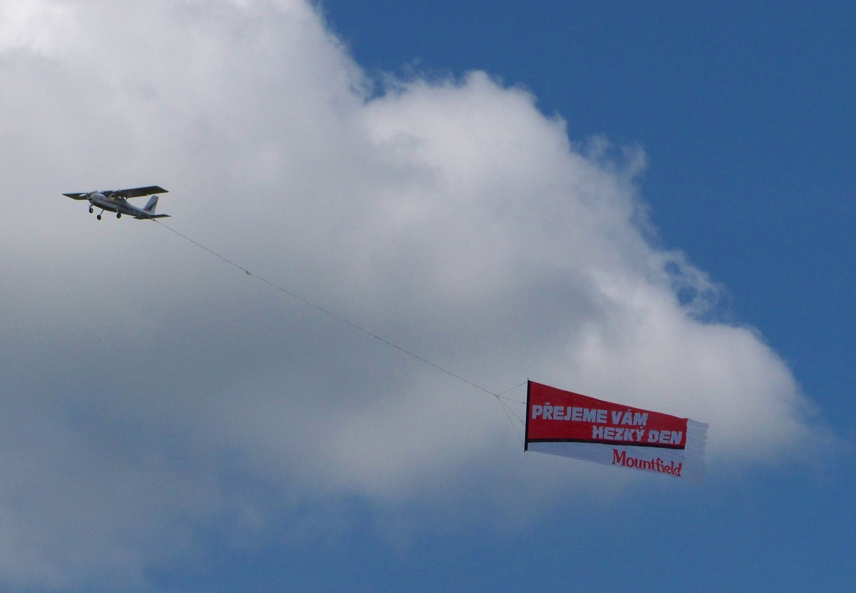 Chotoviny-Červené Záhoří, Tábor District, South Bohemian Region, the Czech Republic. An advertisement aircraft.